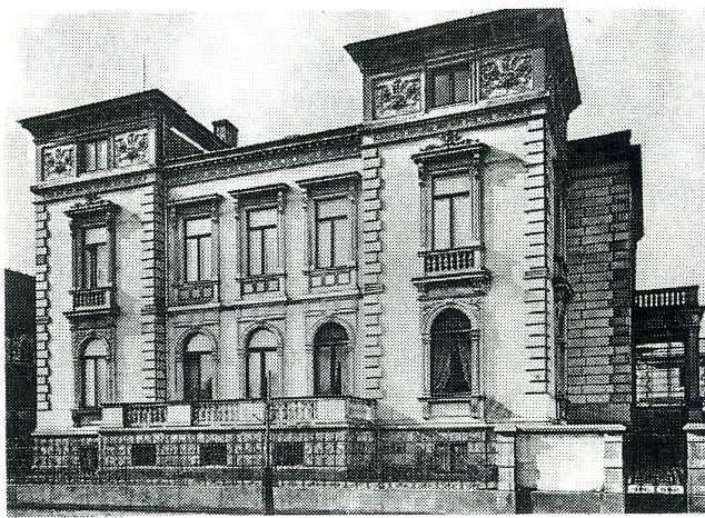 Dresden Haus Wiener Straße 44 (neue Nr. 2). Aufnahme um 1875 (zerstört)